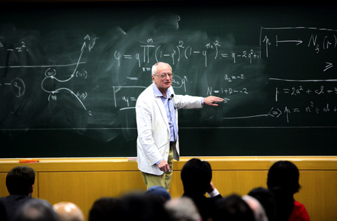 French mathematician, considered one of the greatest mathematicians of the 20th Century.